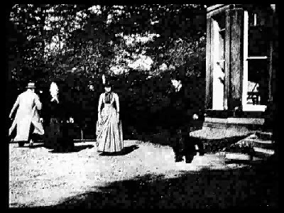 A screenshot from Roundhay original direction by Louis Le Prince. Courtesy of NMFT, Yannick@FR.